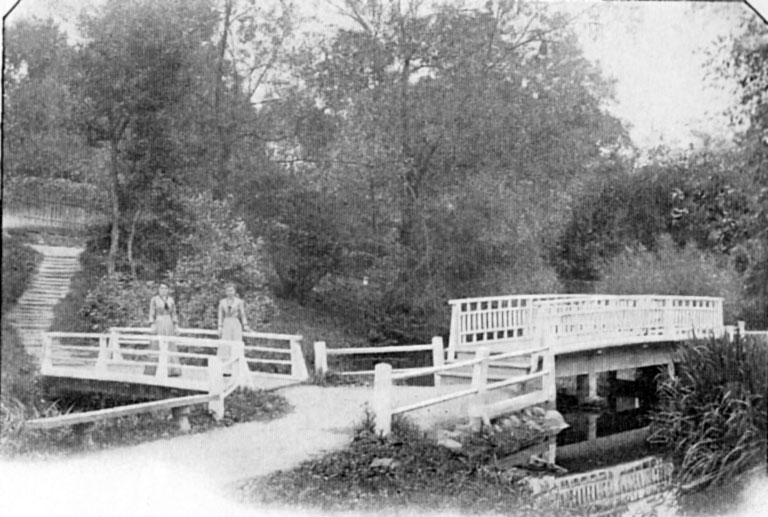 English Park in Peterhof. A photo 1900.